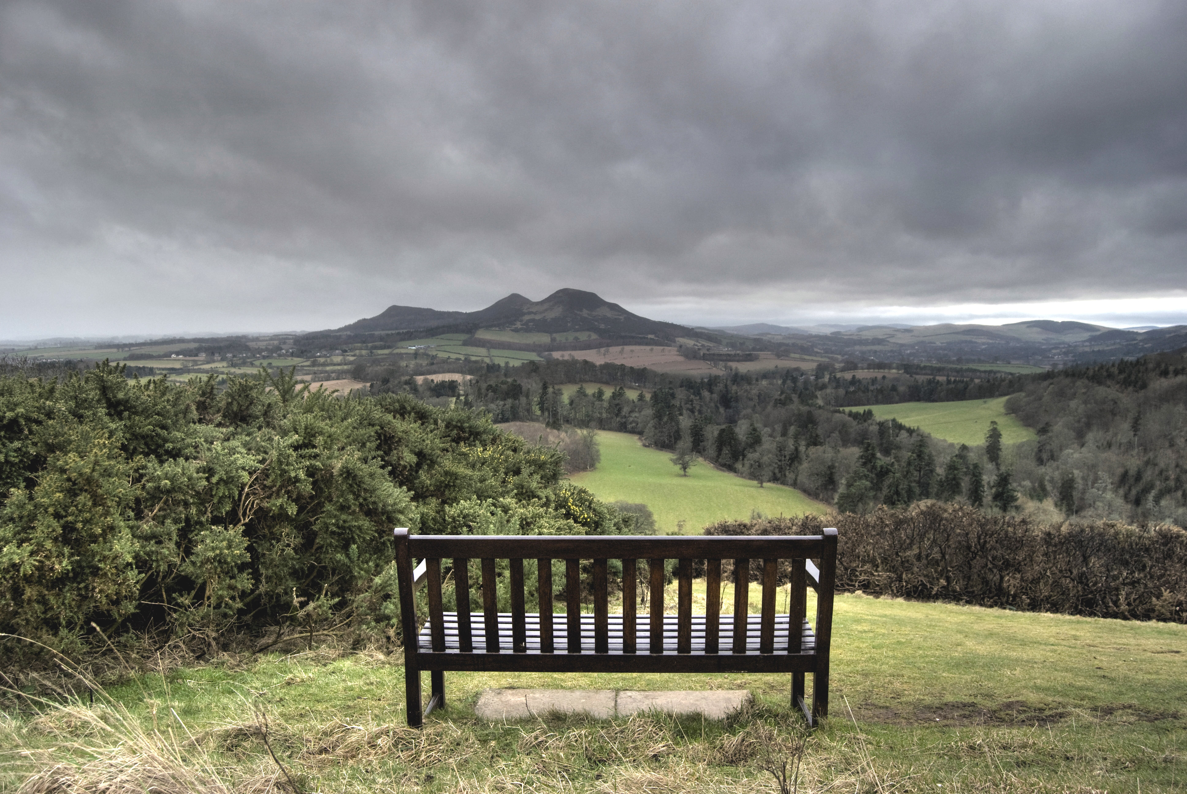 Scott's View on a rather cloudy day